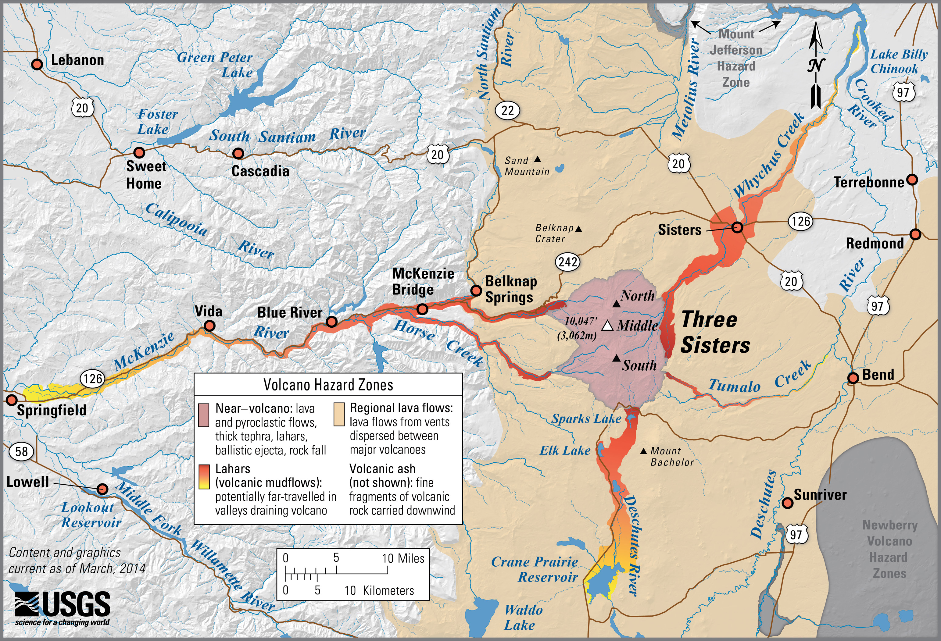 Map of ground-based hazards from the Three Sisters, Oregon volcanic complex.